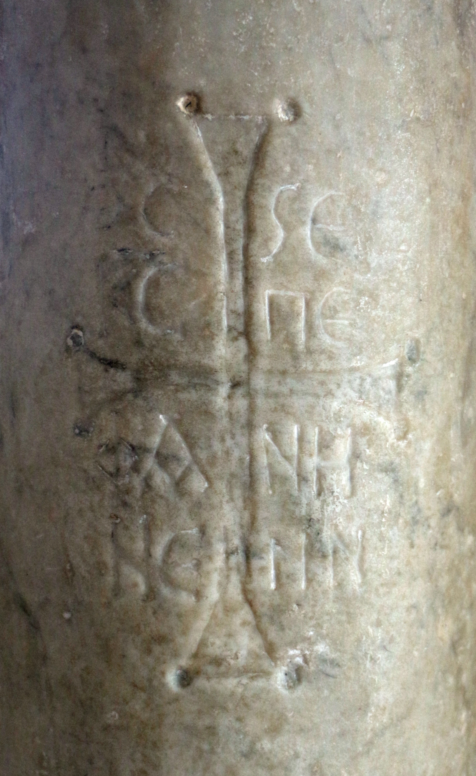 Cattolica di Stilo